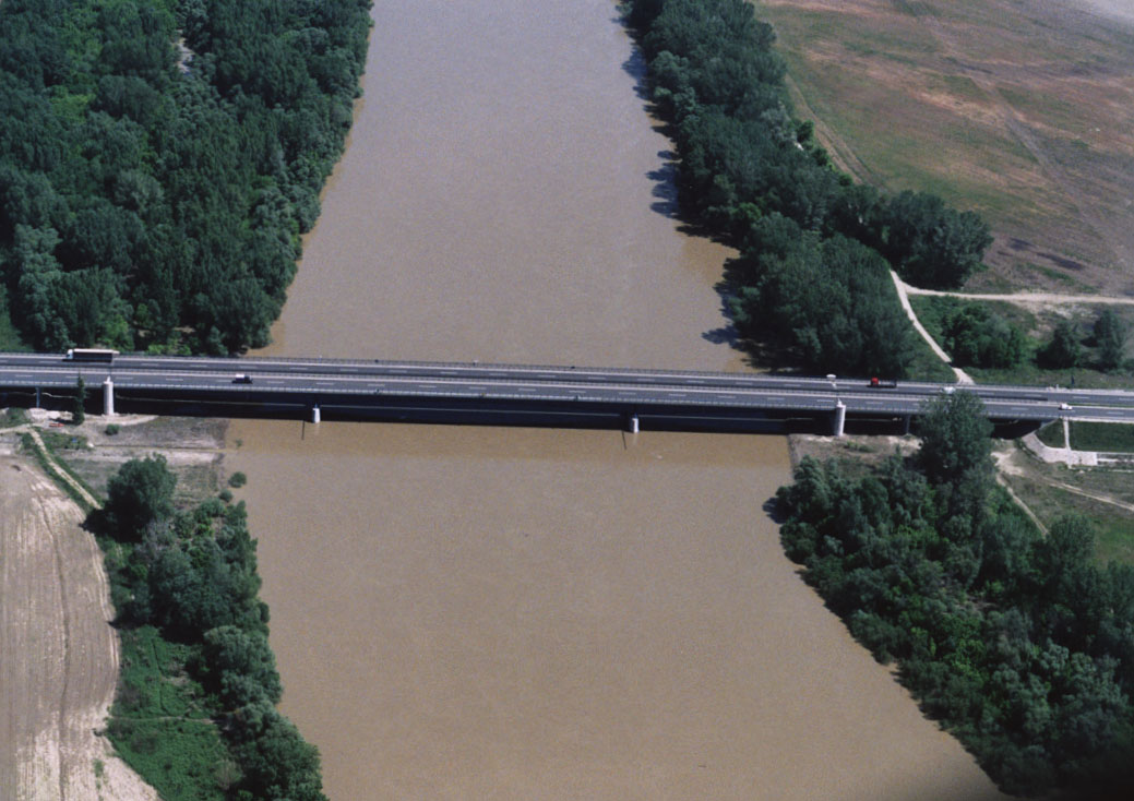 Tisza river bridge of M3 highway in Hungary, Europe